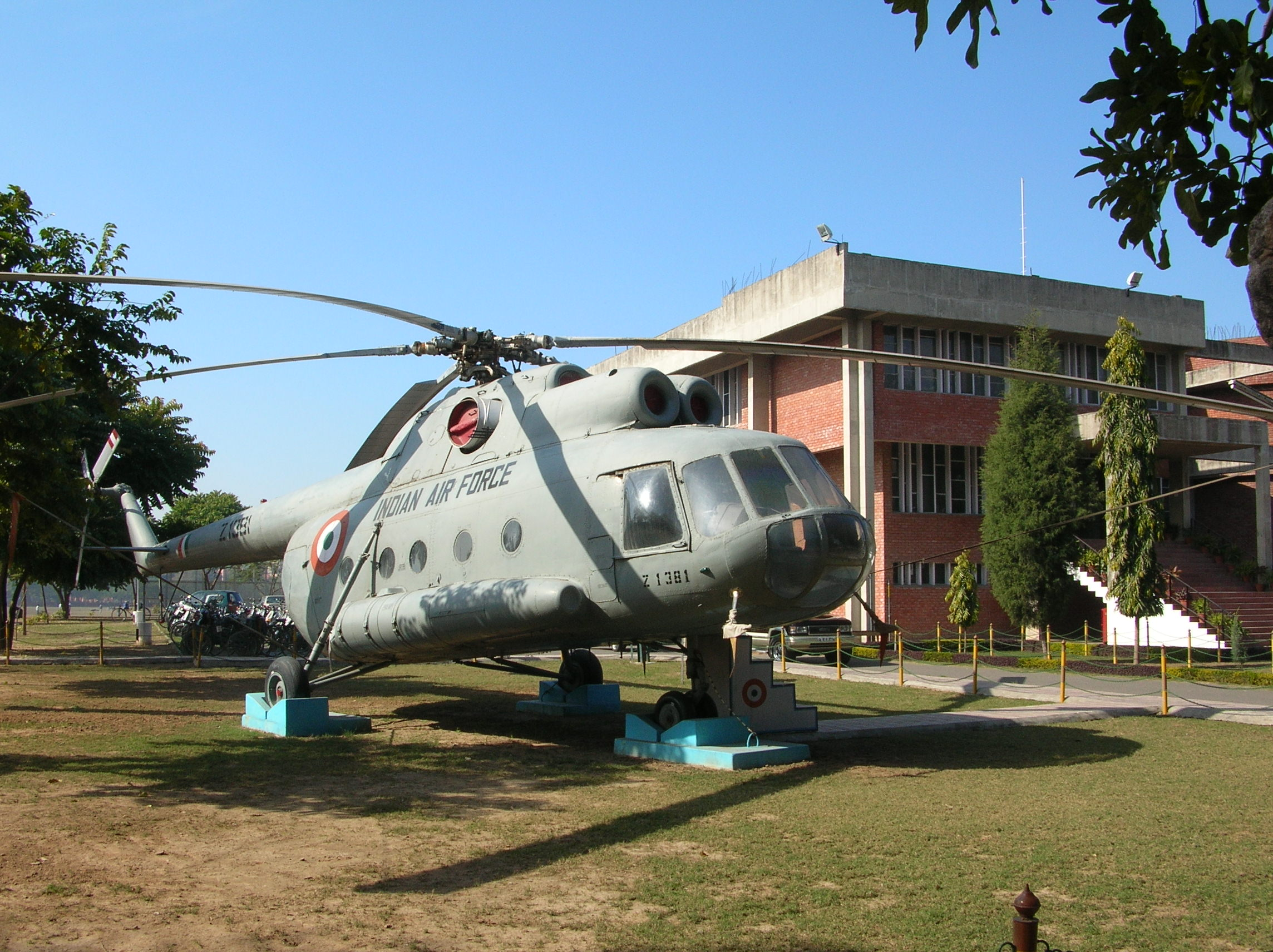 Punjab Engineering College Mi-8 Helicopter donated by the Indian Airforce.